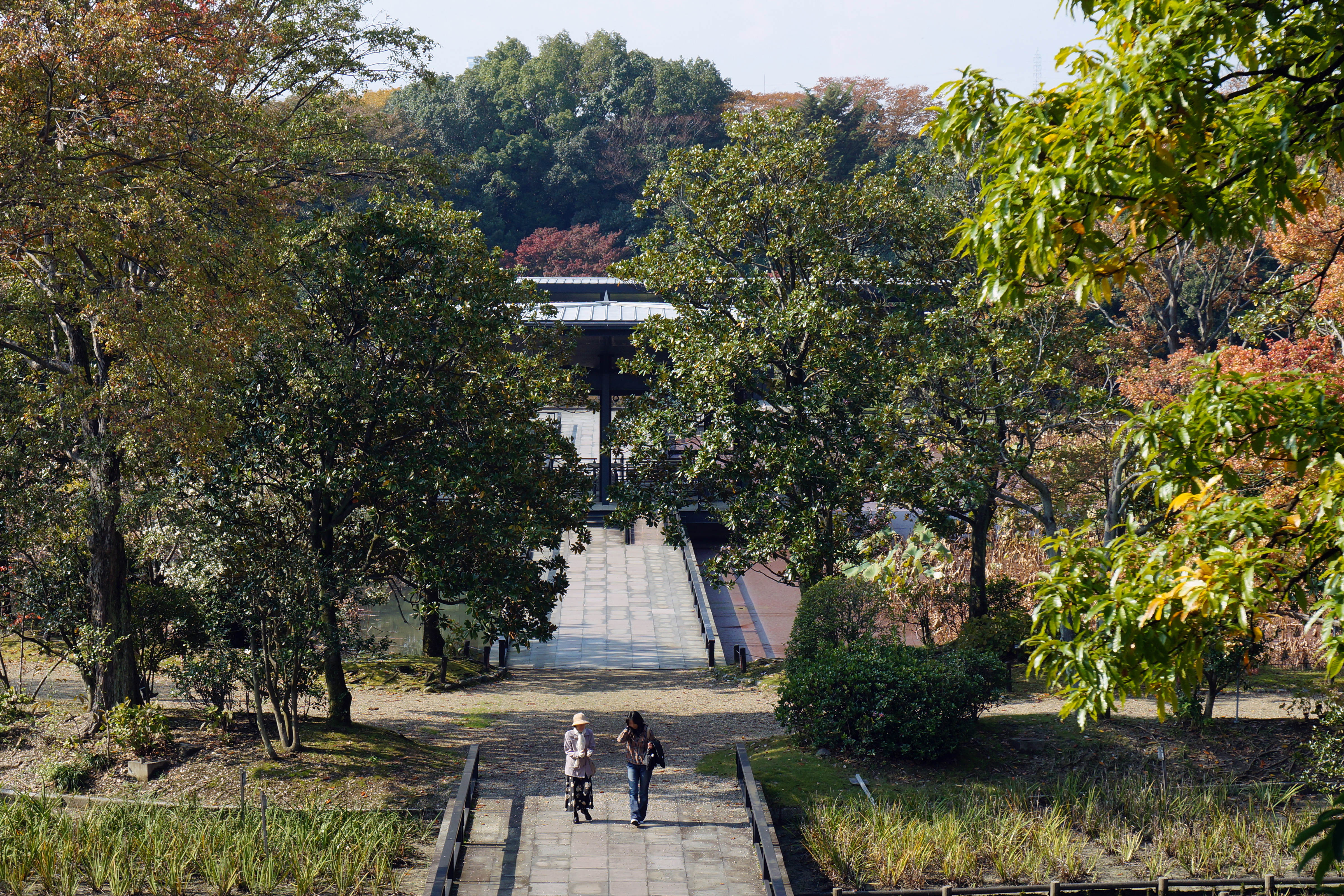 At Expo '70 Commemorative Park in Suita, Osaka prefecture, Japan.